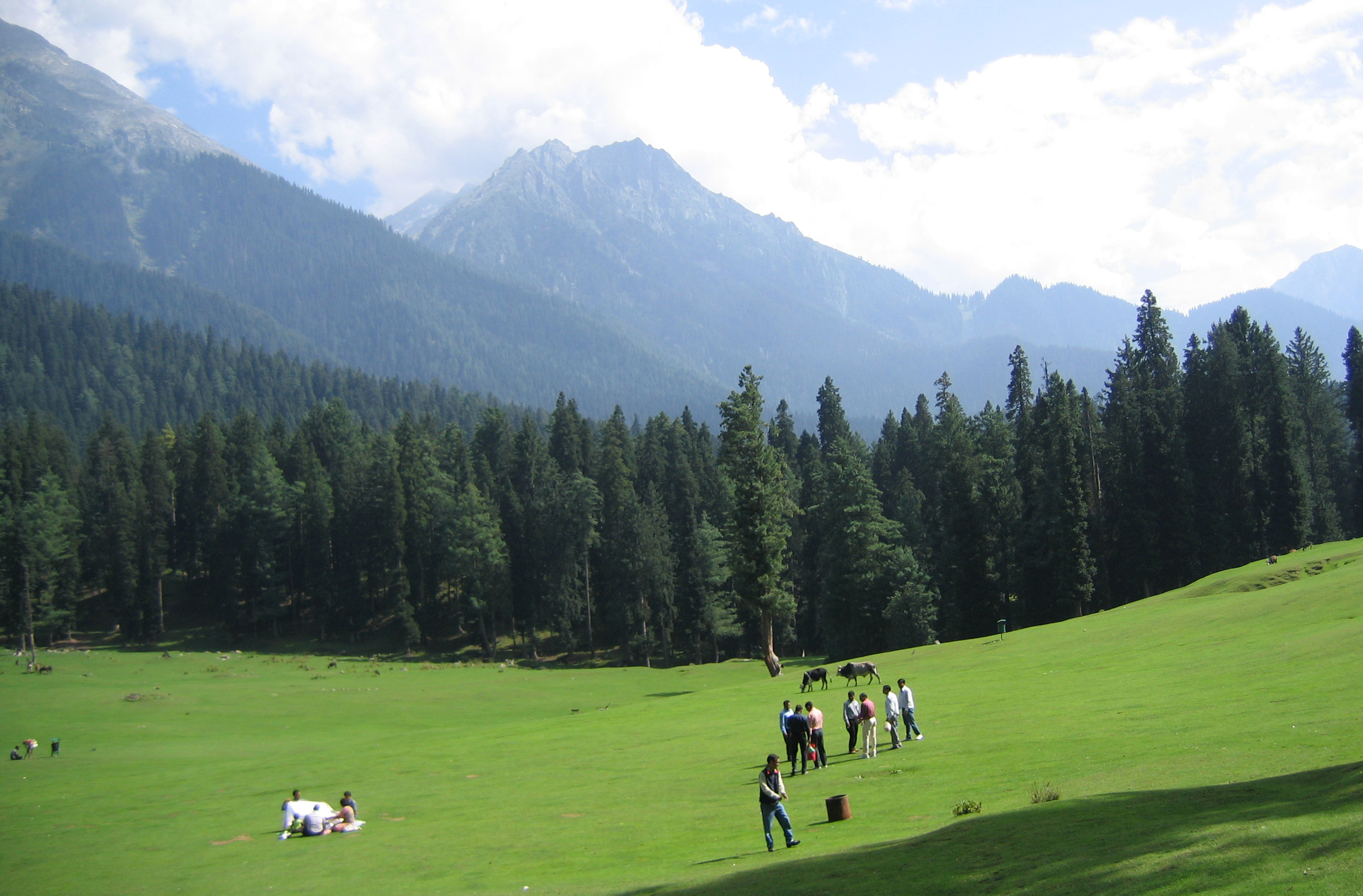 Pahalgam views